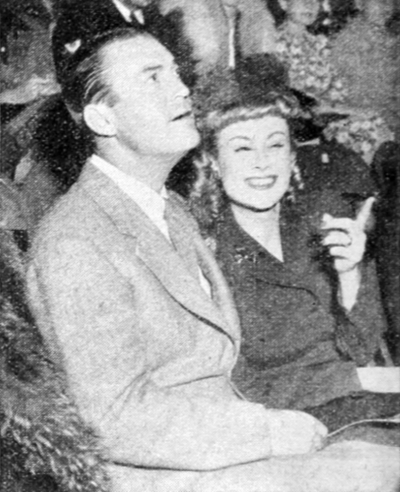 Photograph of Chester Morris and his wife Lillian Kenton Barker Morris at an Ice Follies show